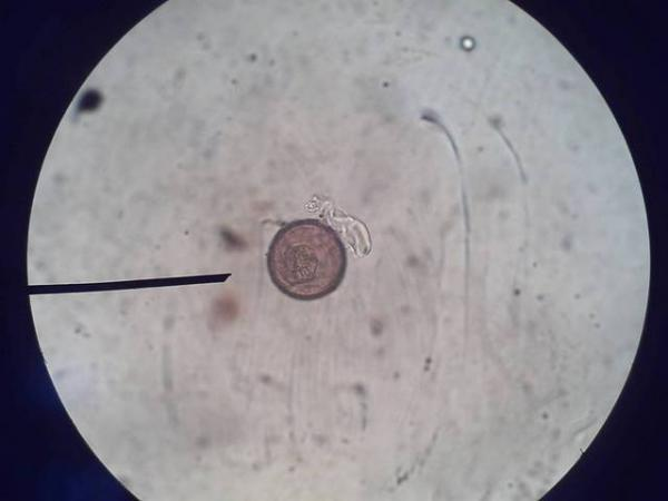 Hymenolepis diminuta egg: parasite